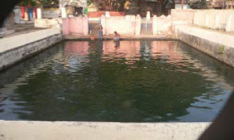 It is situated within the precinct of Chintamanisvara Siva temple at a distance of 3.00 mtrs north of Chintamanisvara Siva temple.